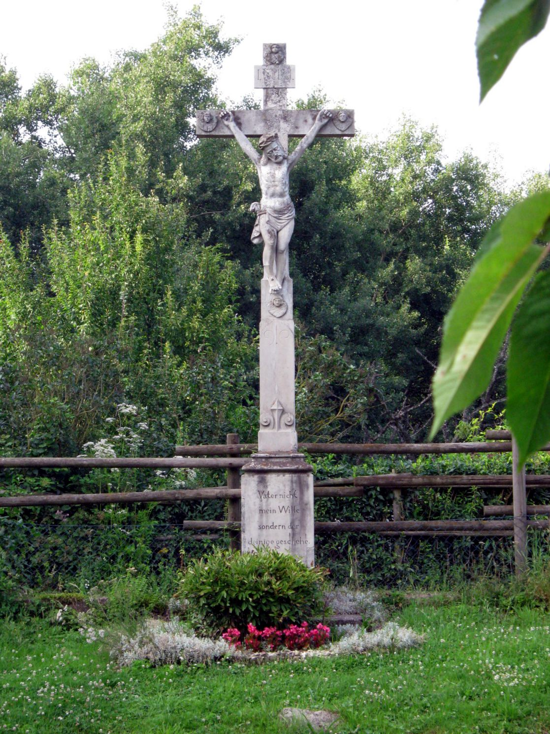 Stone wayside cross in Baden-Baden Balg